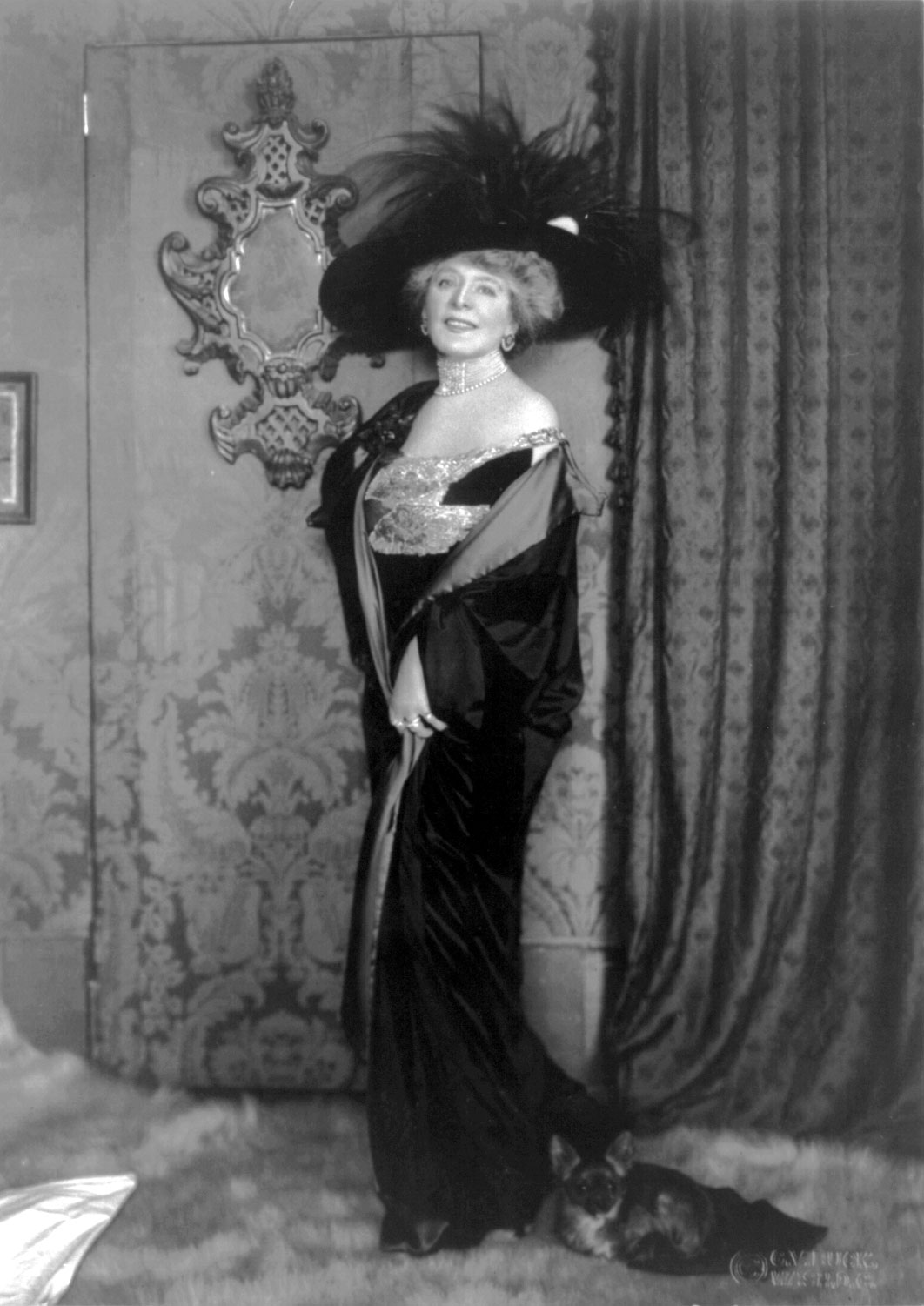 Alice Pike Barney, full-length portrait, facing left